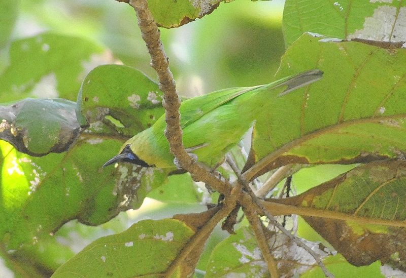 Goldmantled Chloropsis, Ankola, Karnataka, India